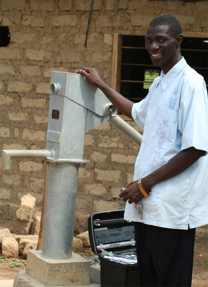 Afridev Handpump in Liberia